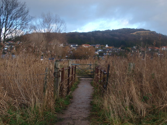 Pont droed dros Afon Ganol / Footbridge over Afon Ganol